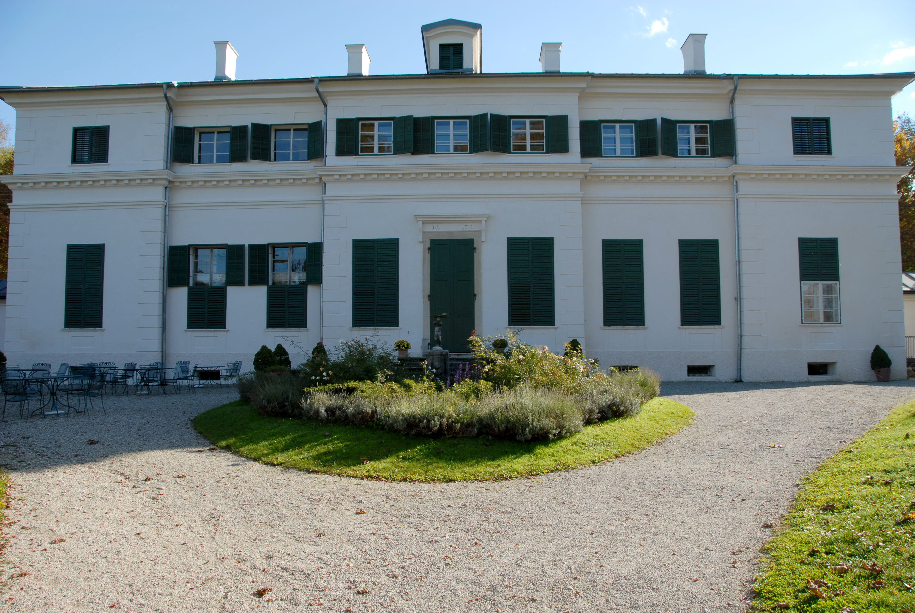 North view at the castle Rosegg, municipality Rosegg, district Villach Land, Carinthia, Austria